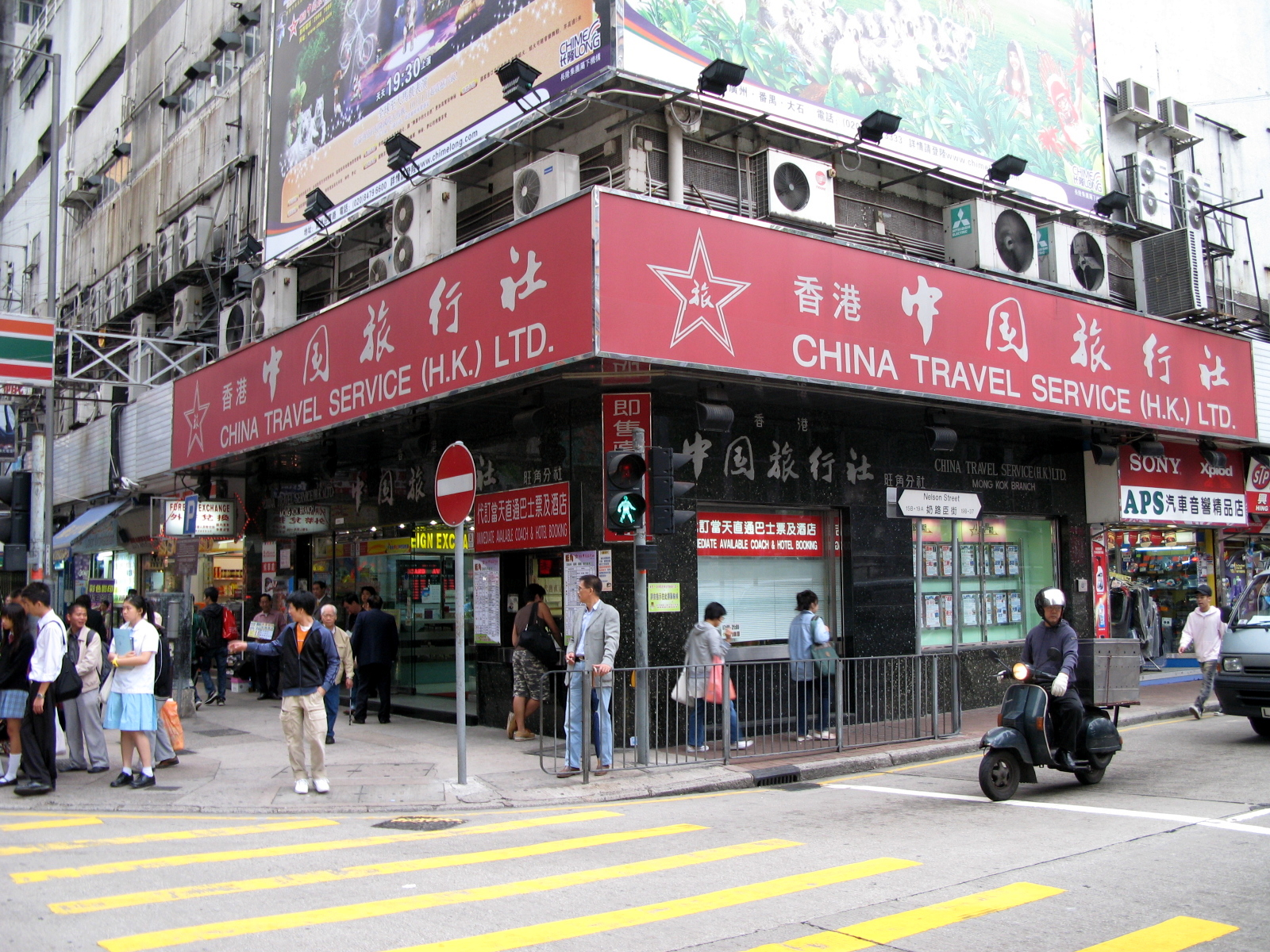 China Travel Service in Mong Kok